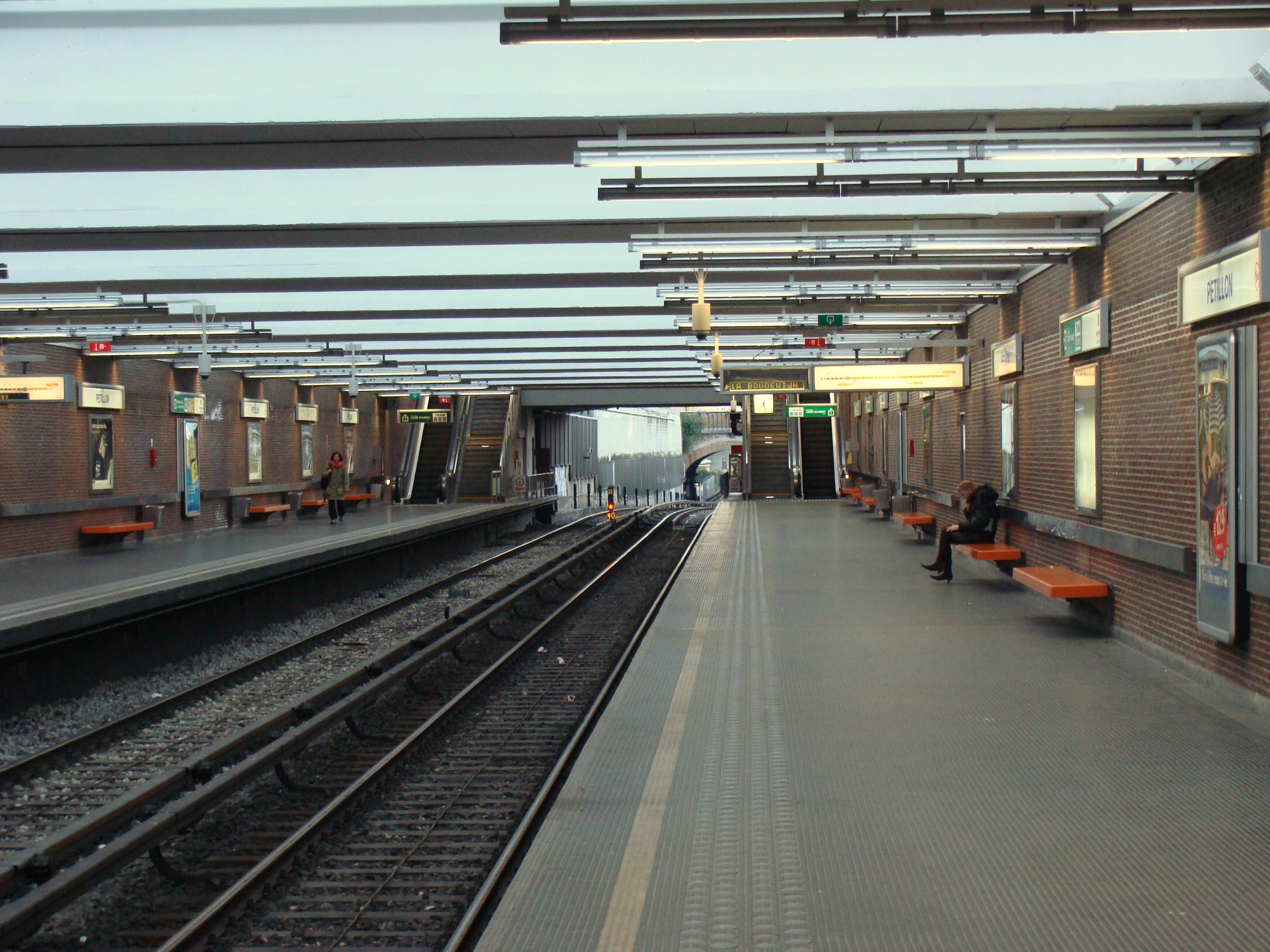 Brussels metro station Petillon, platforms.